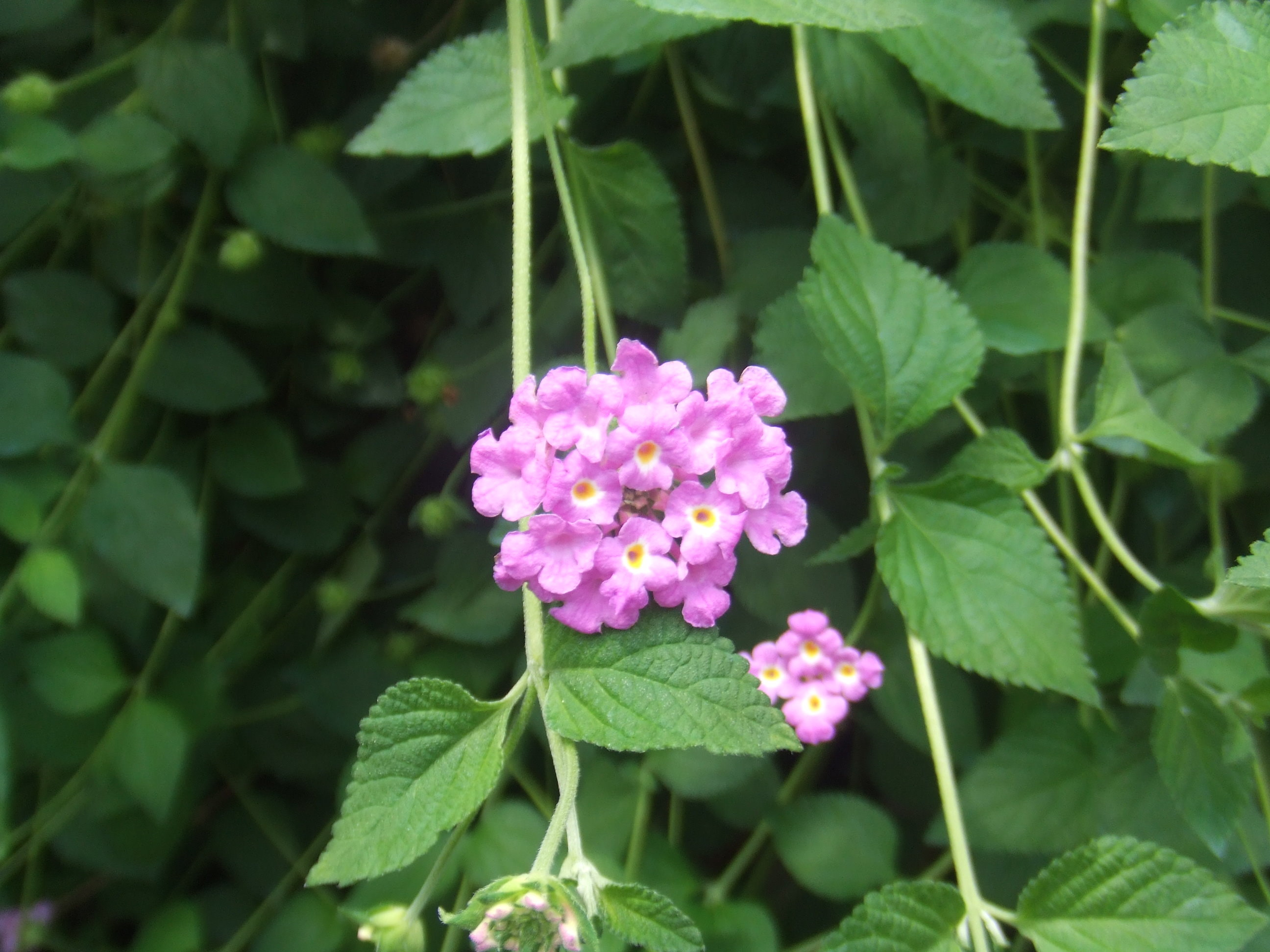 Lantana montevidensis, picture taken at the Passiflorahoeve in Harskamp, The Netherlands